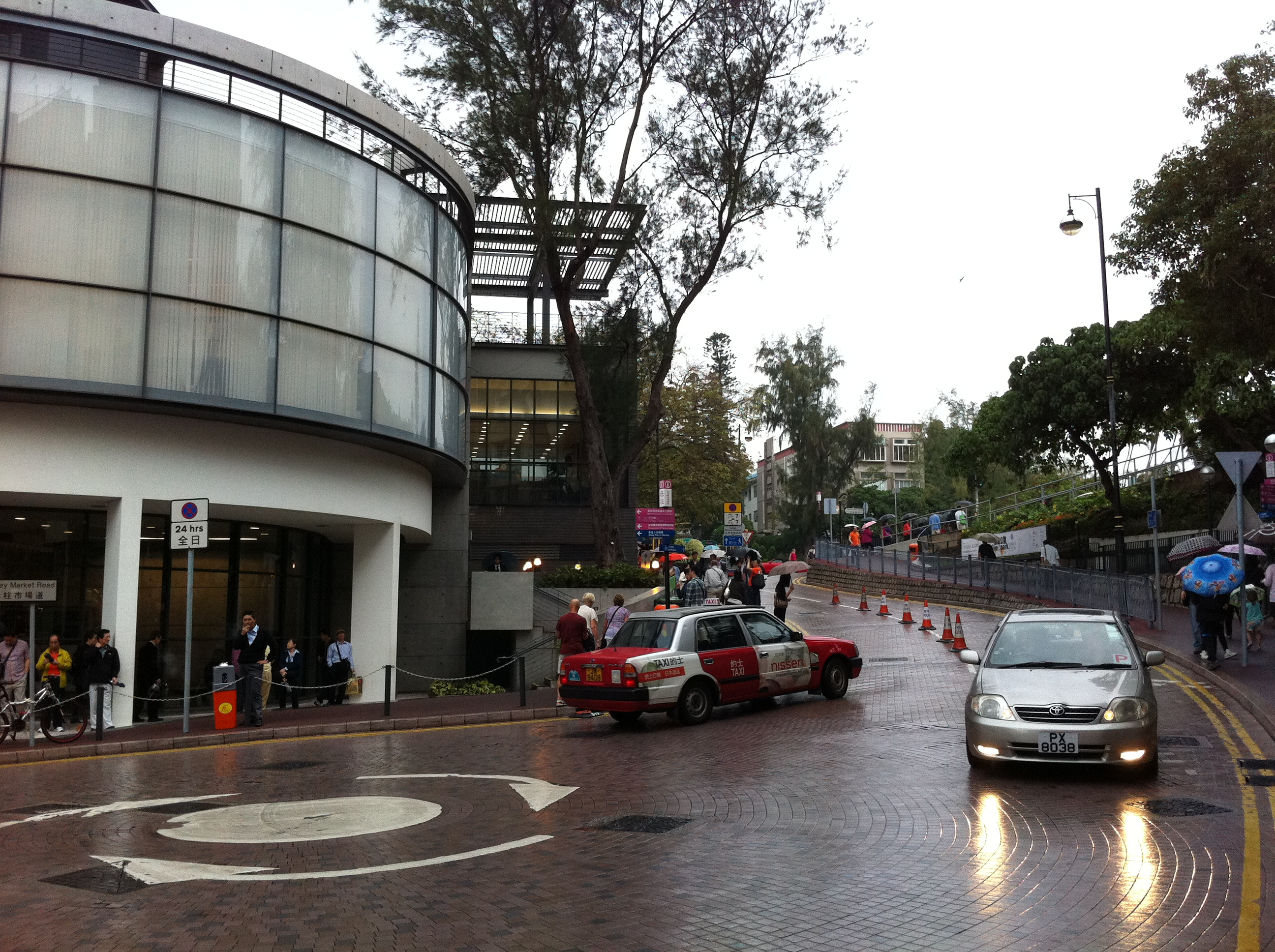 Rain in Stanley Market, Stanley New Street, Southern District, Hong Kong 赤柱市政大廈